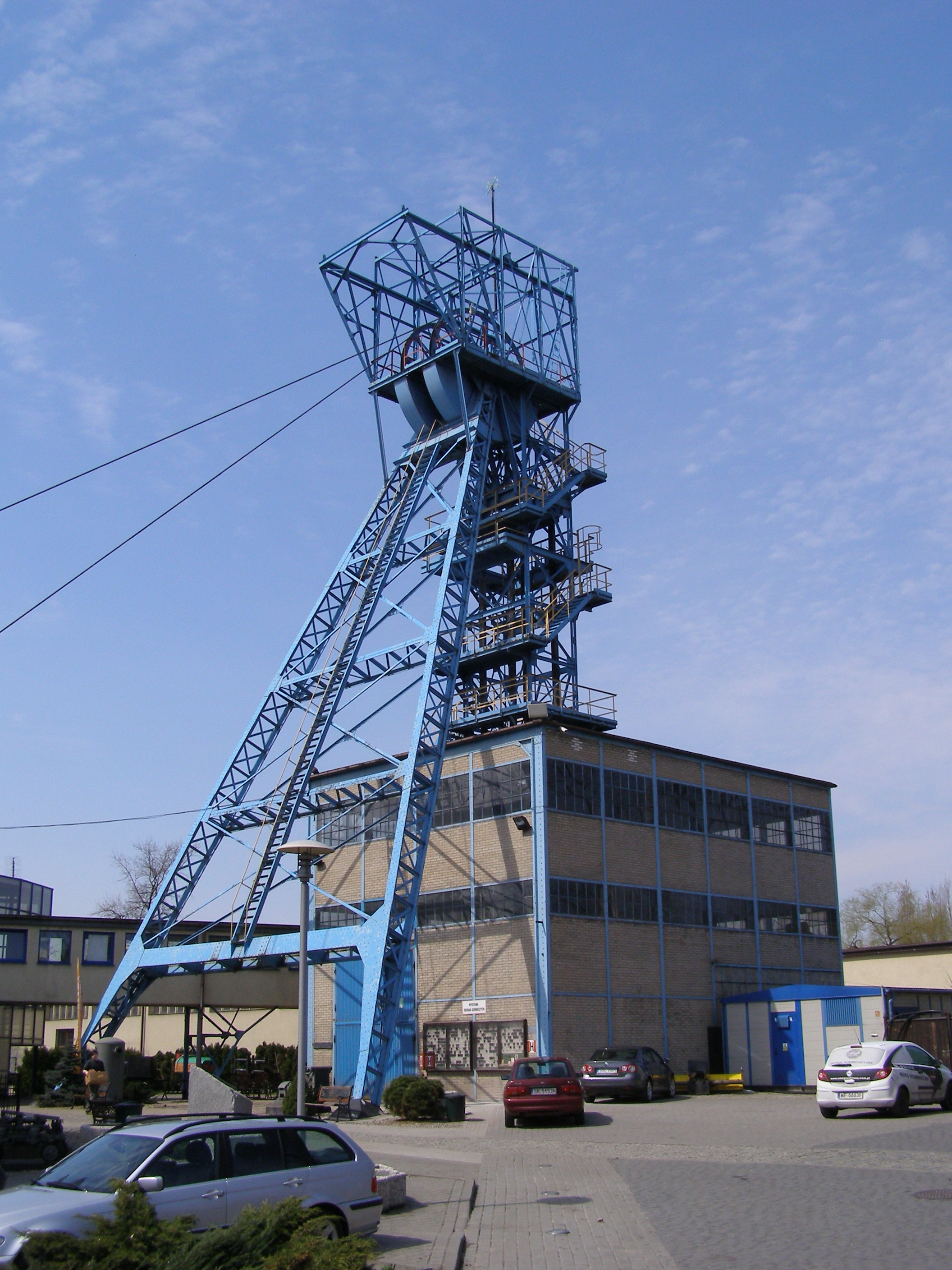 Zabrze - Guido Coal Mining Skansen